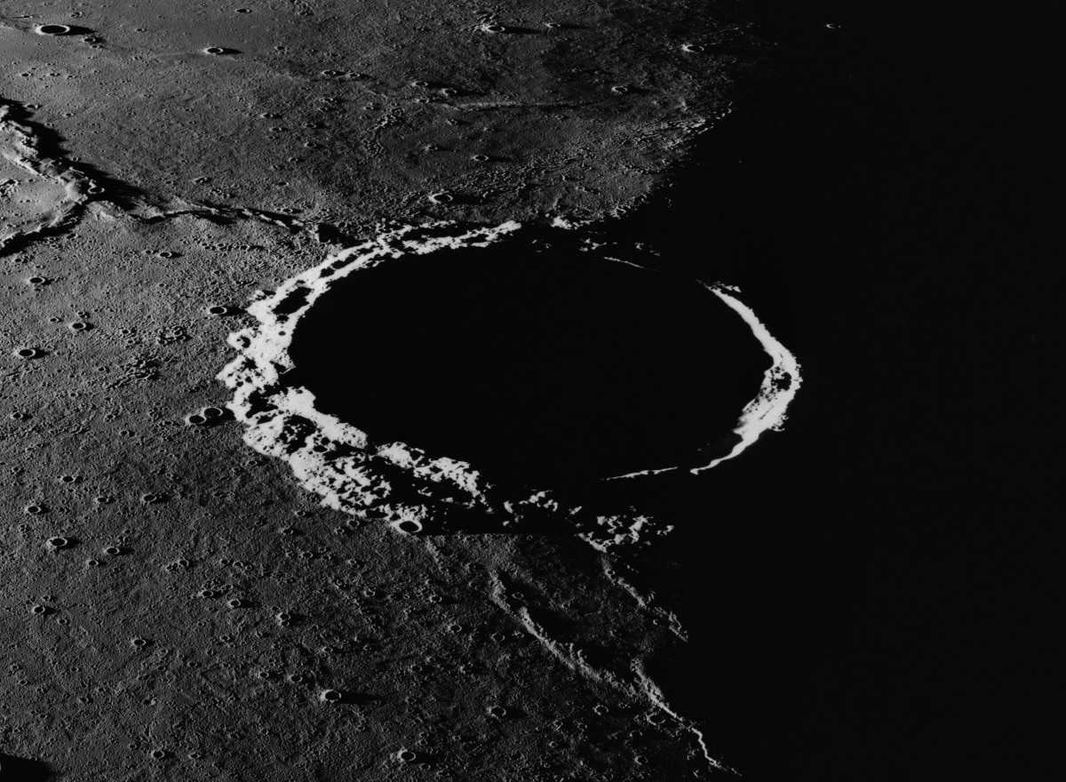 Oblique view of Seleucus, on the moon, while it was at the sunrise terminator. Facing south. In Apollo Over the Moon: A View from Orbit (online version) (NASA SP-362, 1978), the caption of Figure 31, which is similar to the source image of this file, mentions Seleucus as follows: The crater Seleucus, 42 km in diameter, is shown in sunrise along the right (west) edge of the frame. The narrowness of its rim and the abrupt contact between its raised rim and the surrounding mare prove that the final mare flooding occurred after the crater was formed. In other words, the crater predates at least the youngest mare basalts in this area.